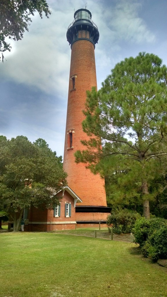 Currituck Beach Lighthouse in Corolla, NC